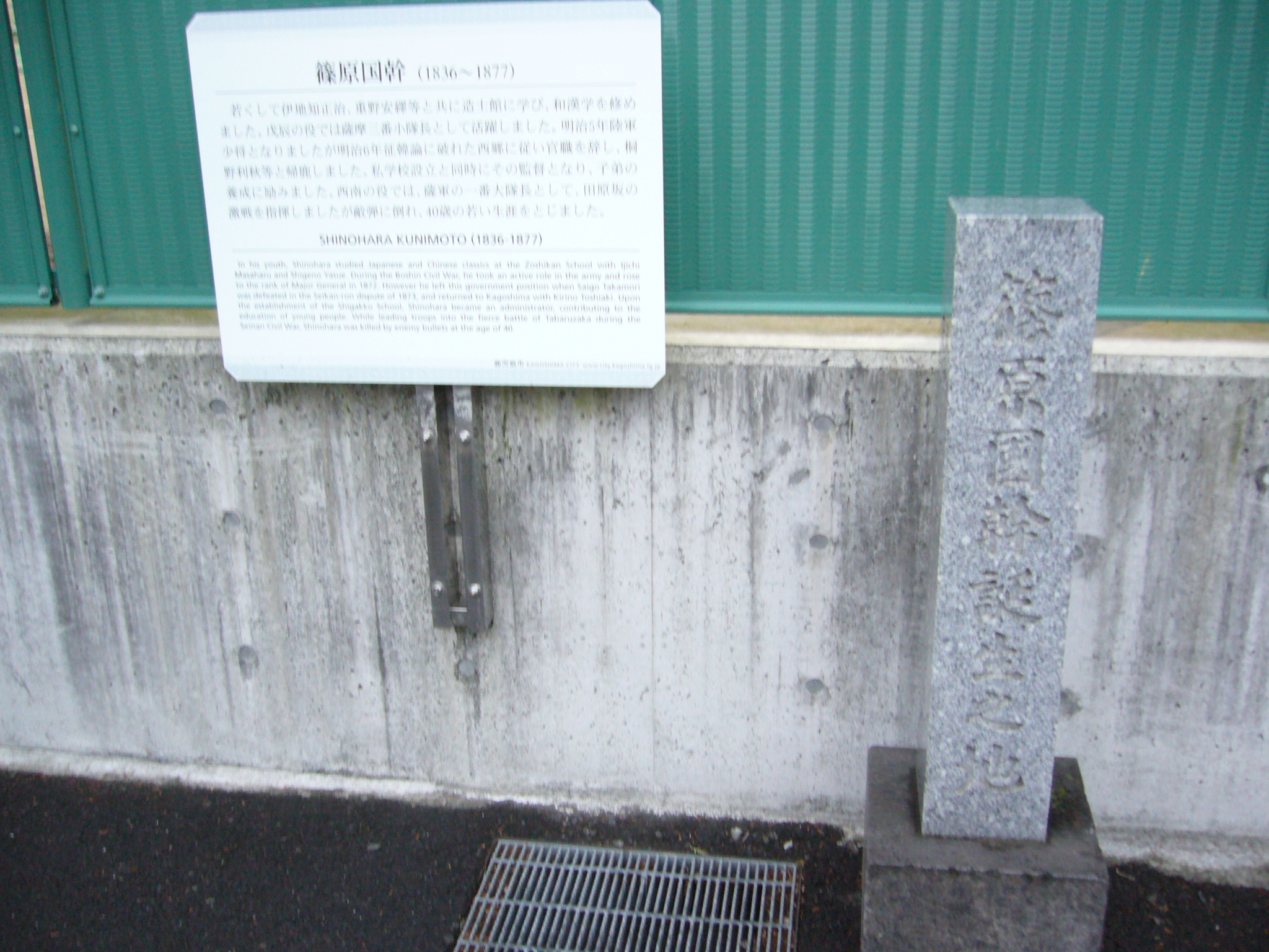 Monument of Kunimoto Shinohara as birthplace